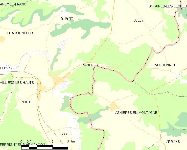 Map of French municipality Ravières